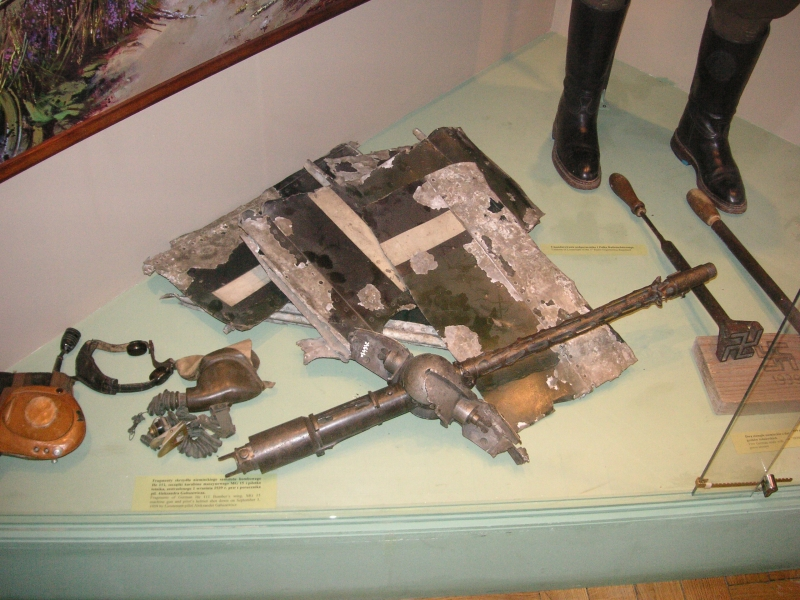 made during a summer day in Warsaw's Museum of the Polish Army; German MG 15 aerial machine gun, pilot's cap and some debris. That's more or less all that's left of a German Heinkel He-111 downed by Aleksander Gabszewicz on September 1, 1939